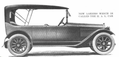 1915 H.A.L. Twelve Touring with Weidely V-12 engine. This was the second production automobile with a V-12 engine, introduced shortly after the Packard Twin Six.